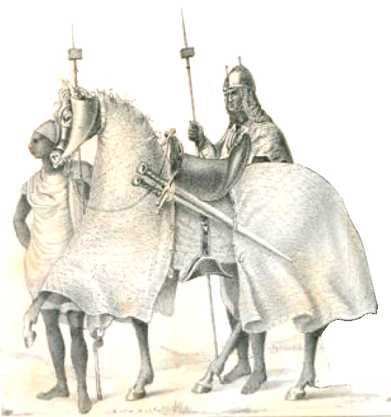 A horsemen and his slave from Wadai, mid 19th century.